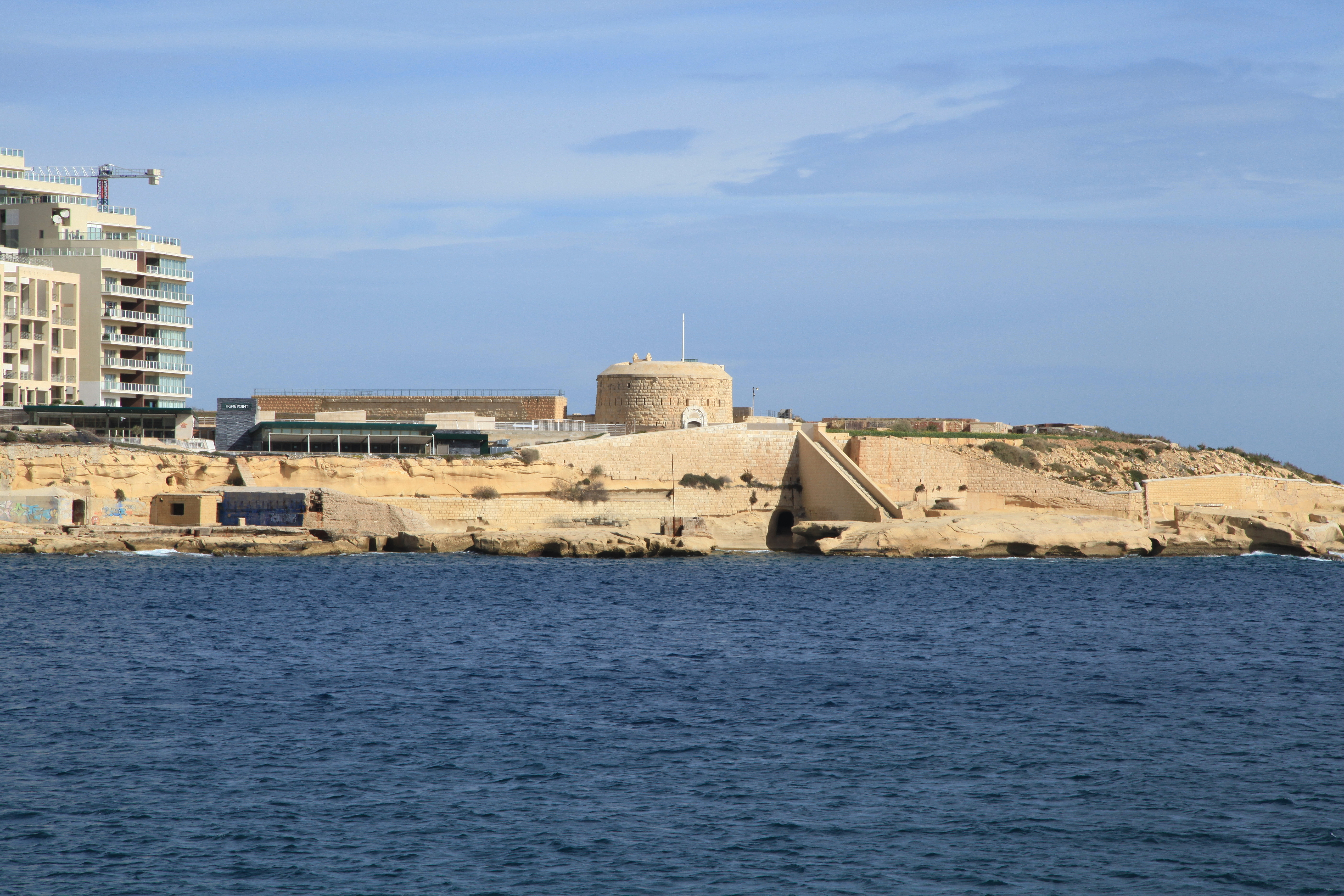 View from Triq il-Lanċa in Valletta to Fort Tigné in Sliema